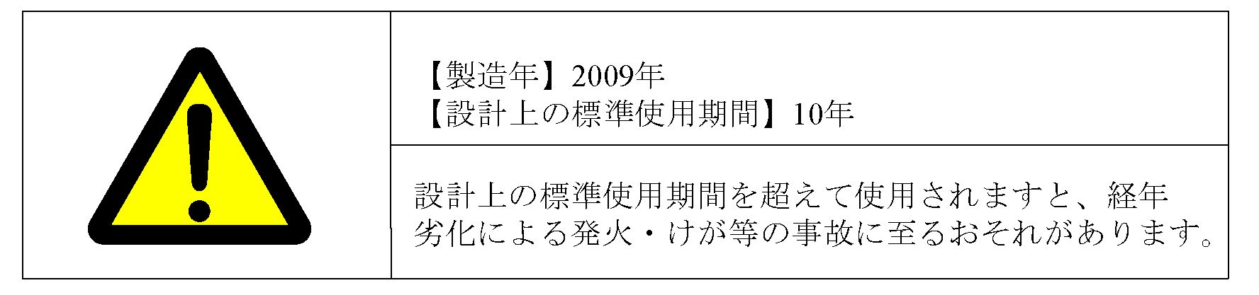 Literary: Indication on the "Product, safety indication (Japan)" under law (Romaji:Cyōki shiyō seihin anzen hyōji seido no hyōji) since April 2009, example